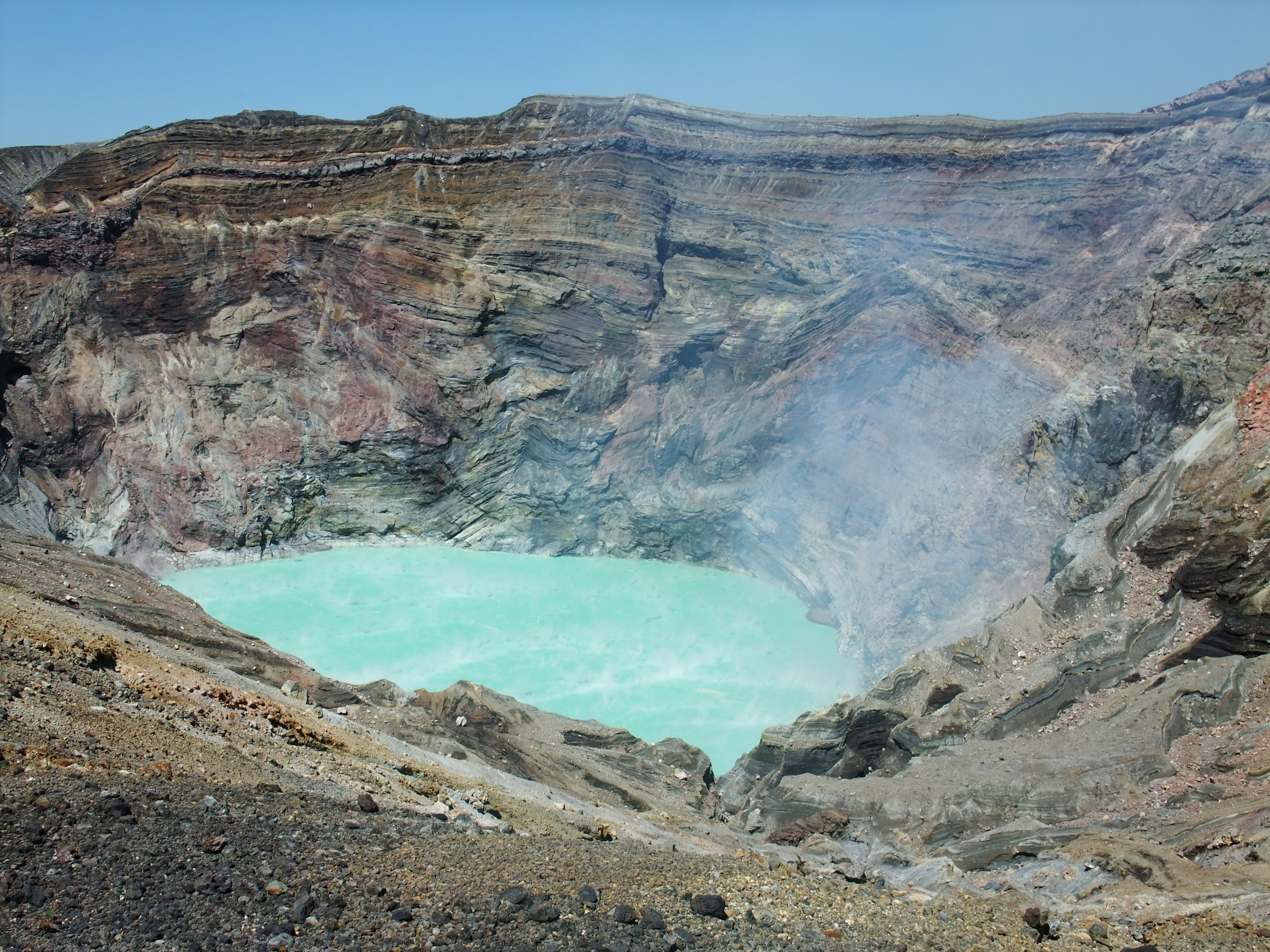 The Nakadake Crater on the Mount Naka in the Aso Caldera, Kumamoto Prefecture, Japan